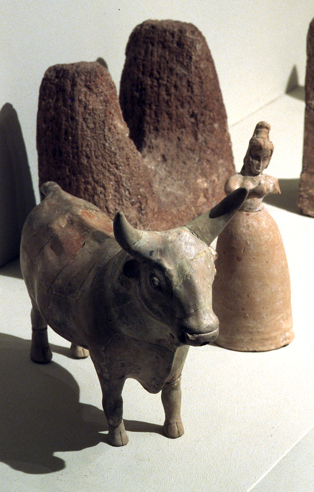 minoan ritual Subject